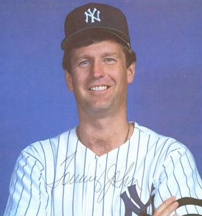 Professional baseball player Tommy John during the 1981 season as a member of the New York Yankees.